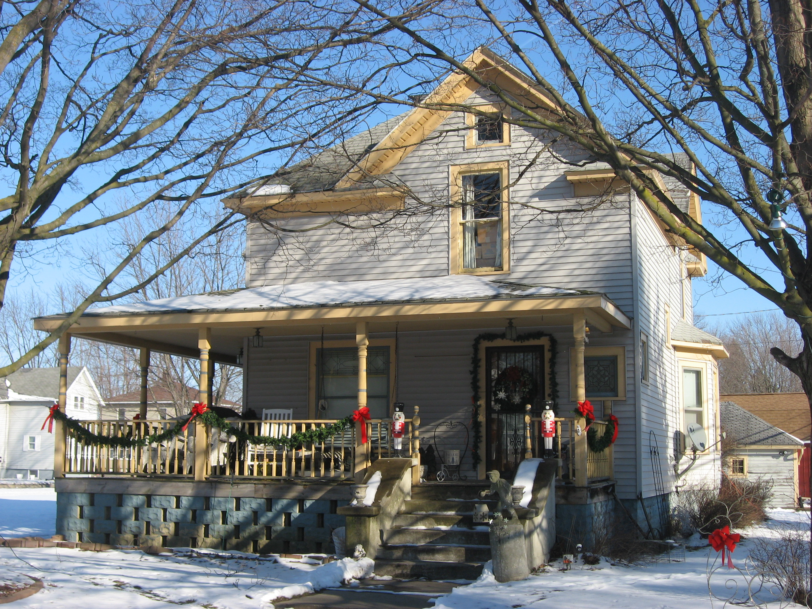 Front and southern side of the Henry Peters House, located at 201 N. Sixth Street in Garrett, Indiana, United States. Built in 1910, it is listed on the National Register of Historic Places.